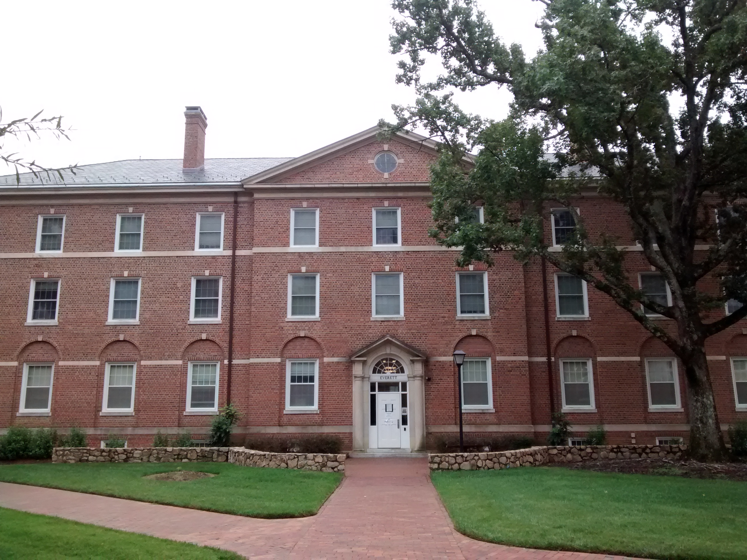 Everett Residence Hall at the University of North Carolina at Chapel Hill.